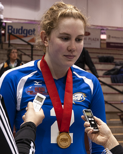 Photo of women's volleyball player Lisa Barclay